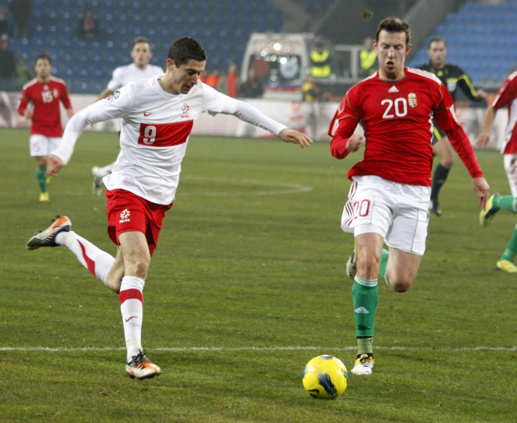 Polish association football player Robert Lewandowski (and Hungarian Ákos Elek)